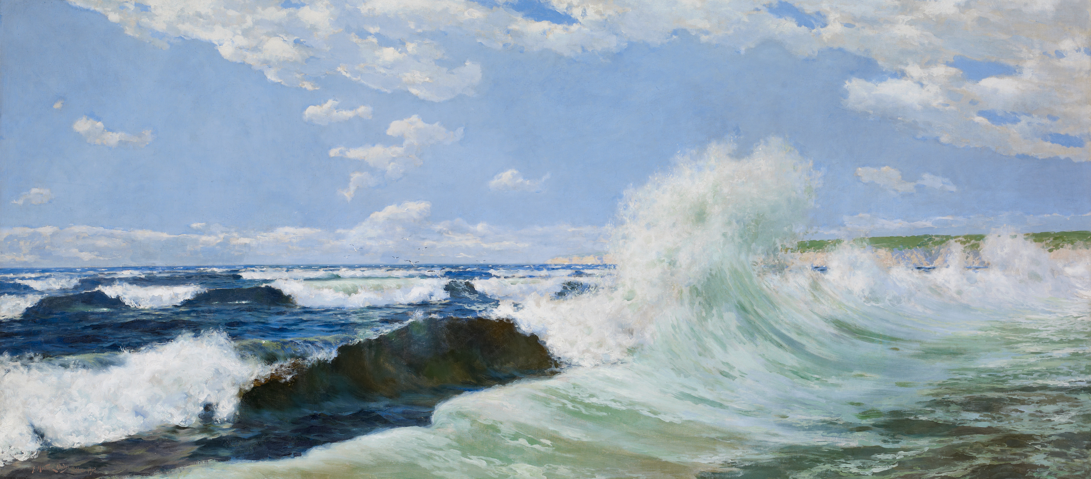 Exterior Port and Abra of Bilbao with Punta Galea Oil on canvas, 90 x 200 cm, Inv. CTB.1998.5 Carmen Thyssen Museum Native nameMuseo Carmen Thyssen MálagaLocationMálaga, (Spain)Coordinates36° 43′ 17″ N, 4° 25′ 22″ W Established2011Website control VIAF: 230371067 LCCN: no2012034269 GND: 16335044-9 SUDOC: 163469776 BNF: 16968889h WorldCat